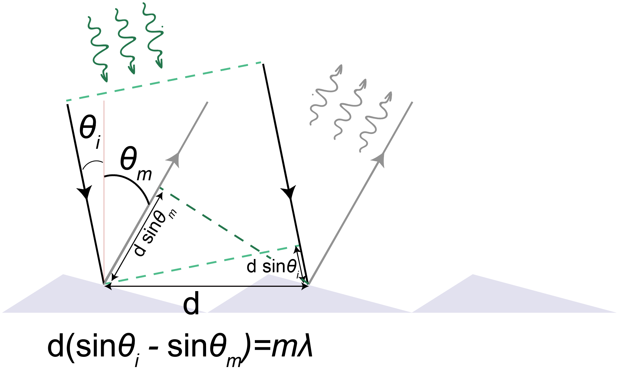 The maximum condition for reflection from the diffraction grating